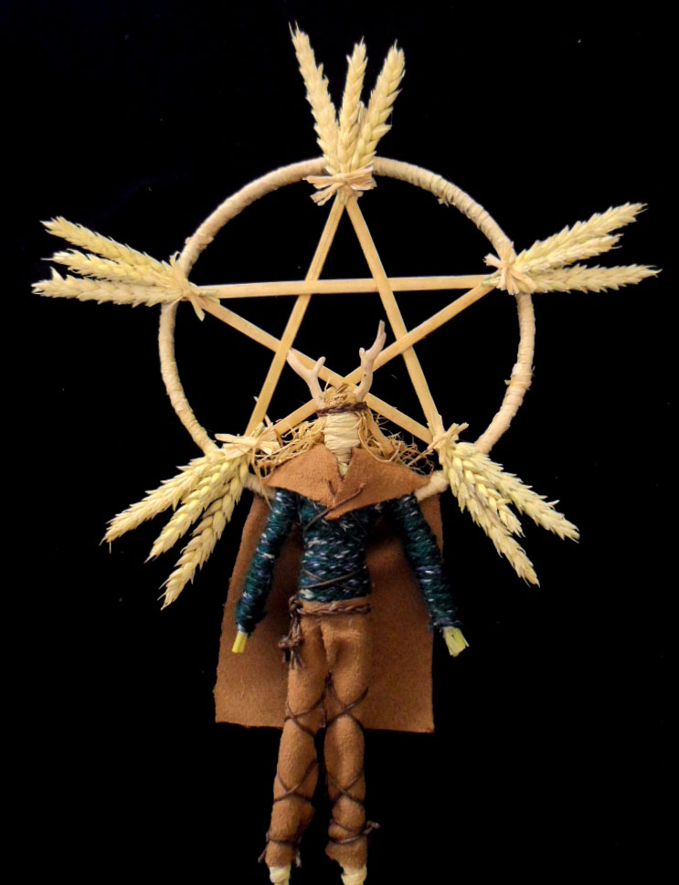 This shows a 'male' corn dolly or idol that I made.It is fashioned in the same way as the corn mother. I believe it is rare to see one. It represents the Celtic sun God Lugh. The celebration of Lughnasadh or Lammas.